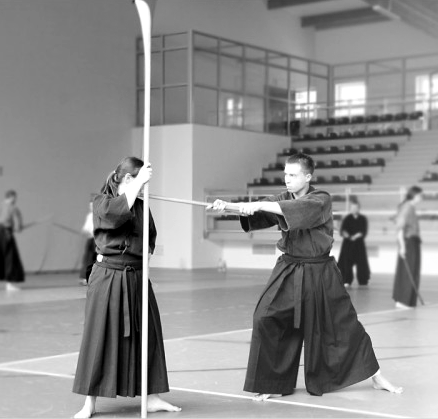 Kata naginata-jutsu Katori Shintō-ryū in Poland (2007).